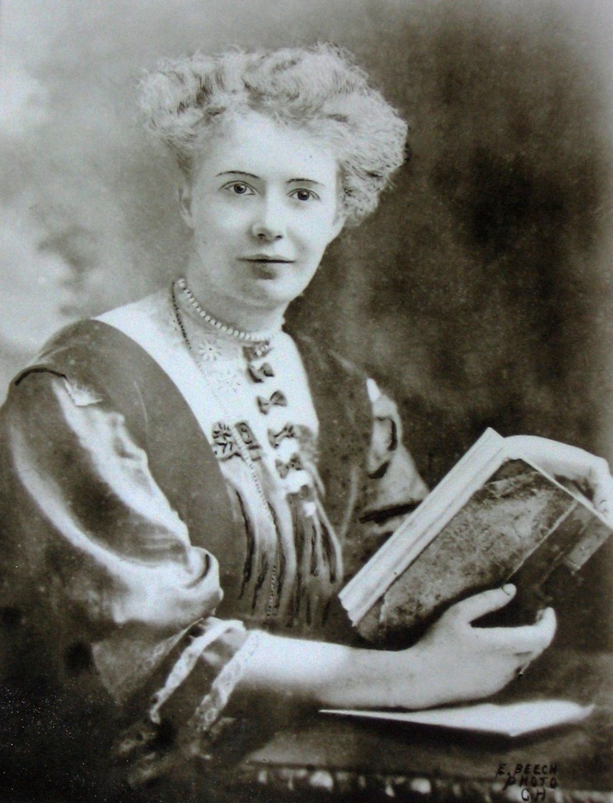 Black Country Living Museum, Wikimedia Backstage Pass day. Cropped and enhanced photograph of Mary Macarthur